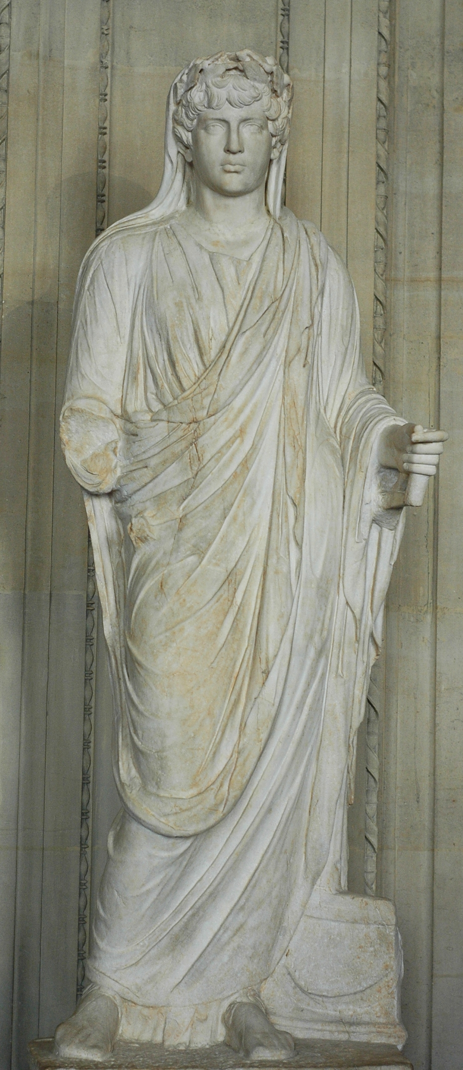 Antinous (117–138 CE) as a priest of the imperial cult. Marble statue found in Cyrene, Libya.